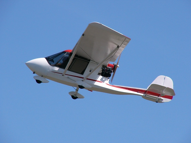 I took this photo of Quad City Challenger II C-IBUY at Carp Airport on 09 May 2004